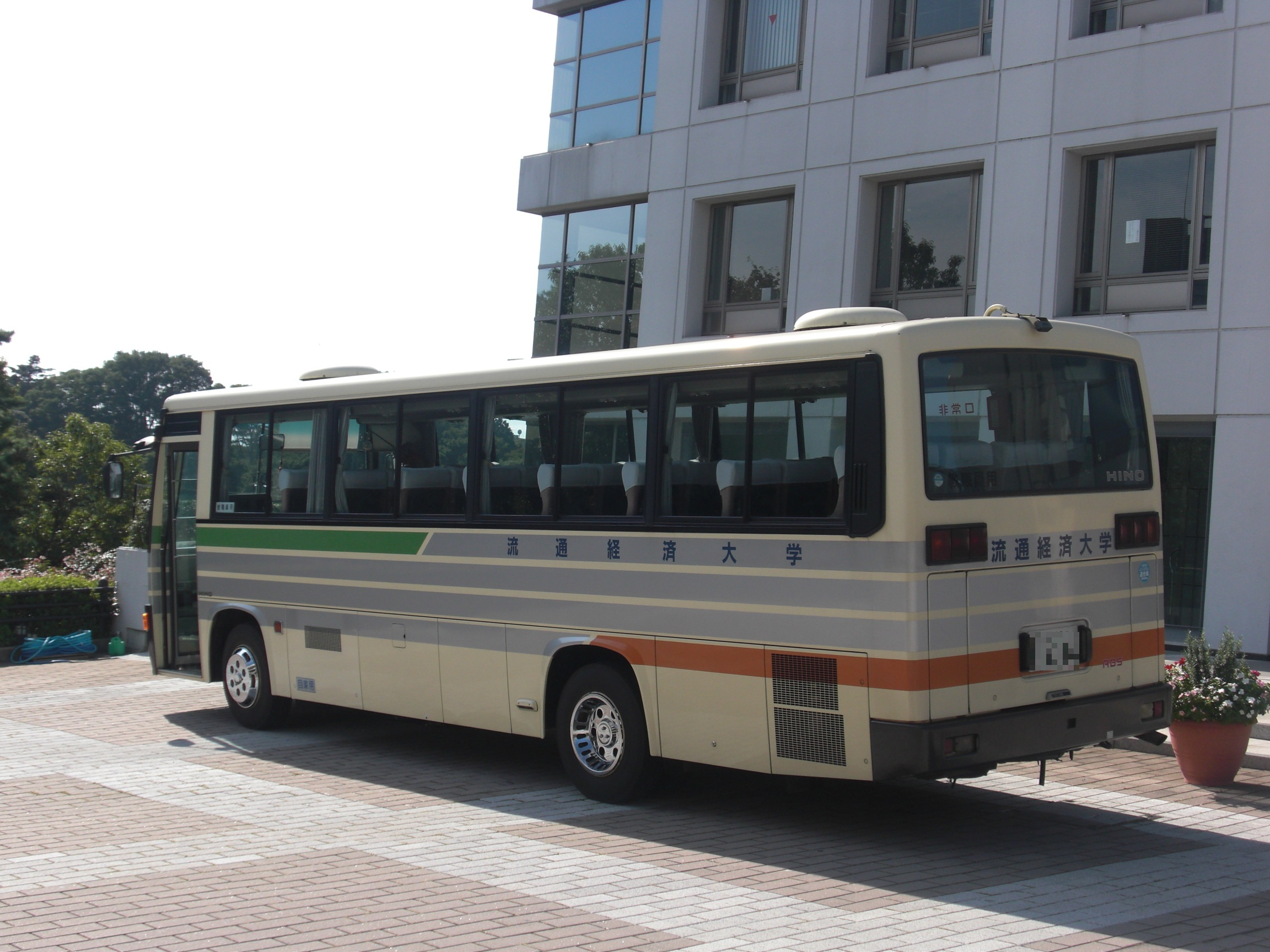 This is a bus for Ryutu Keizai Univ.